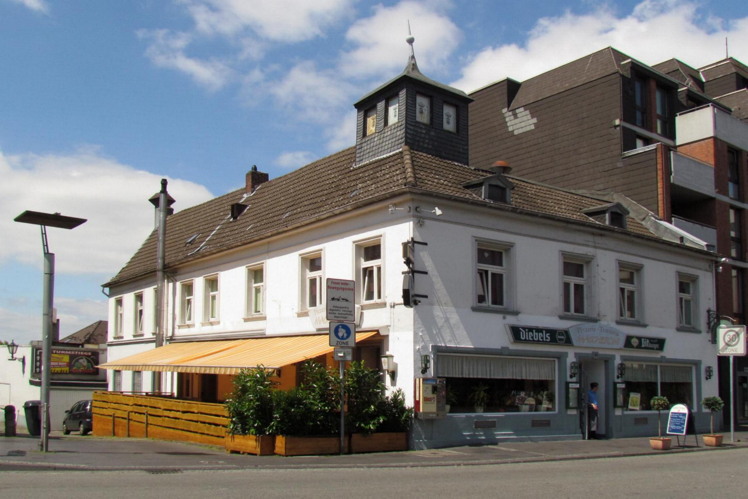 This is a photograph of an architectural monument. 014